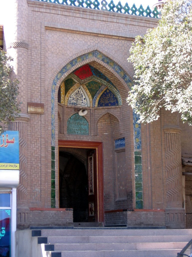 Kashgar (Kashi) is an oasis city in the Xinjiang Uygur Autonomous Region of the People's Republic of China. Old city streets.